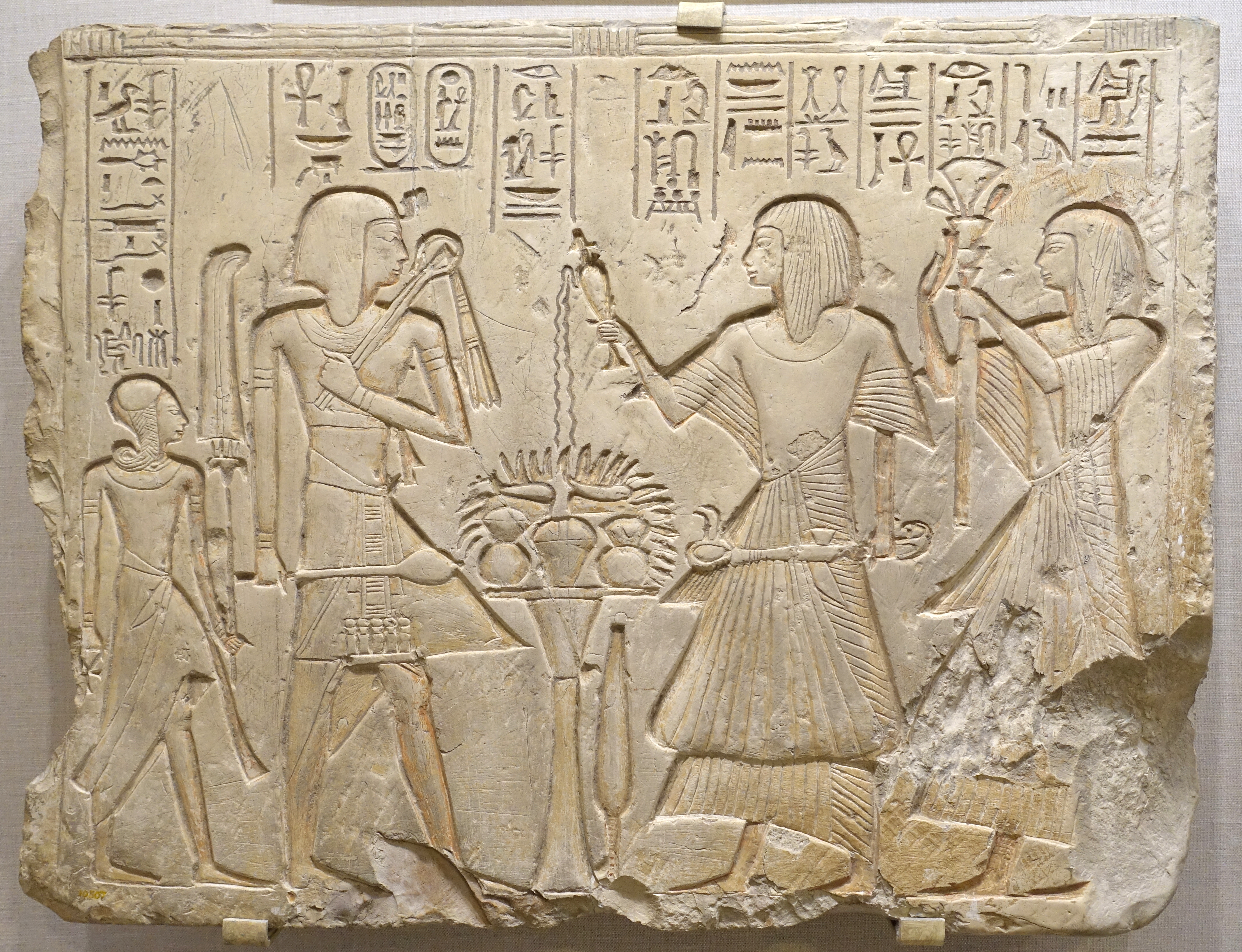 Exhibit in the Oriental Institute Museum, University of Chicago, Chicago, Illinois, USA. This work is old enough so that it is in the public domain.